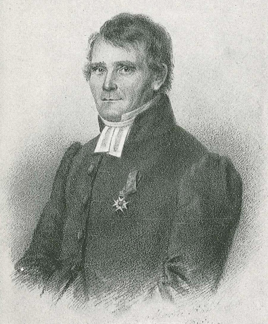 Anders Otto Lindforss (1781-1844), Swedish historian, philologist and clergyman, professor at Lund University